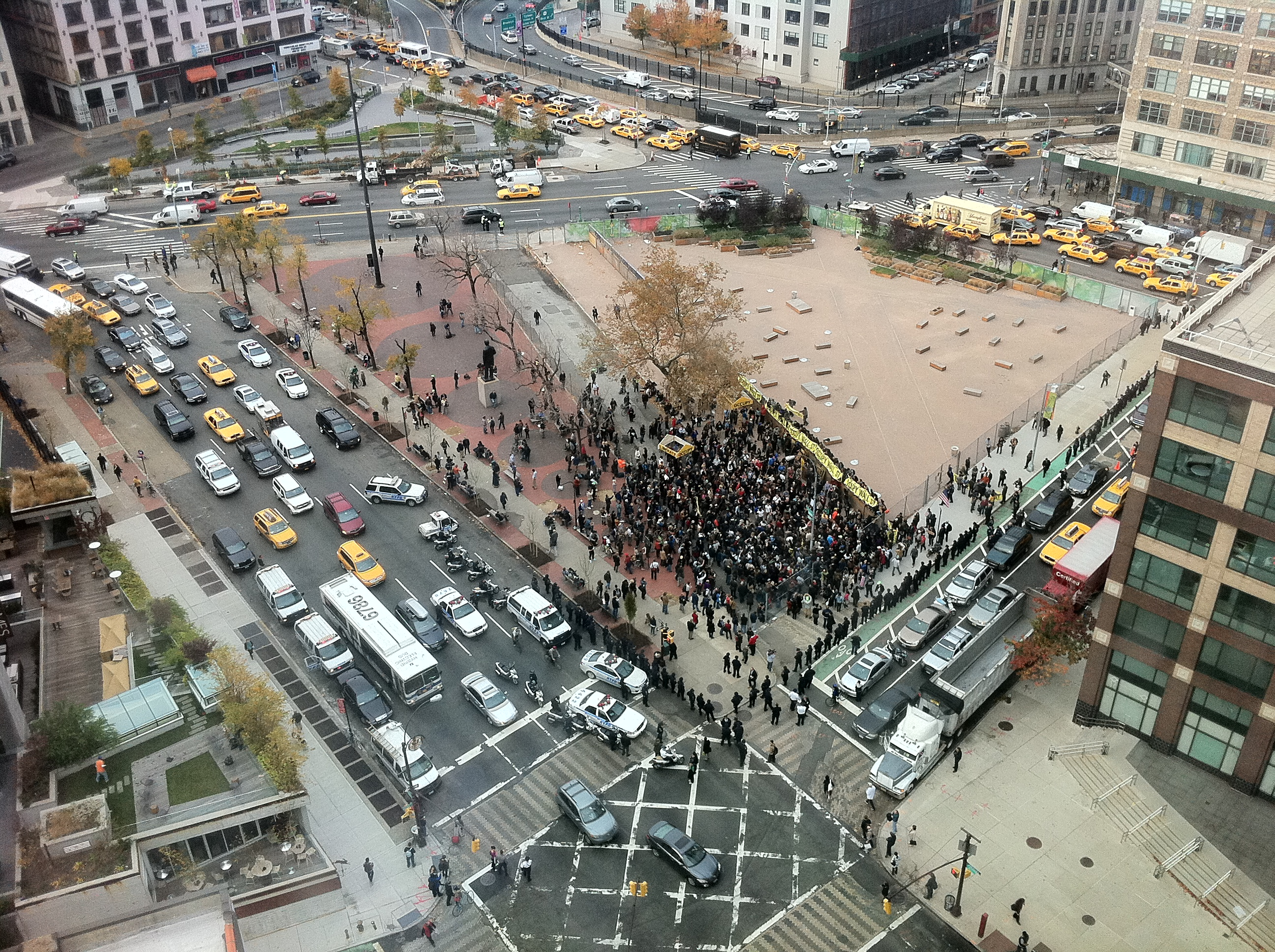 The Occupy Wall Street group attempts to occupy LentSpace in November 2011.